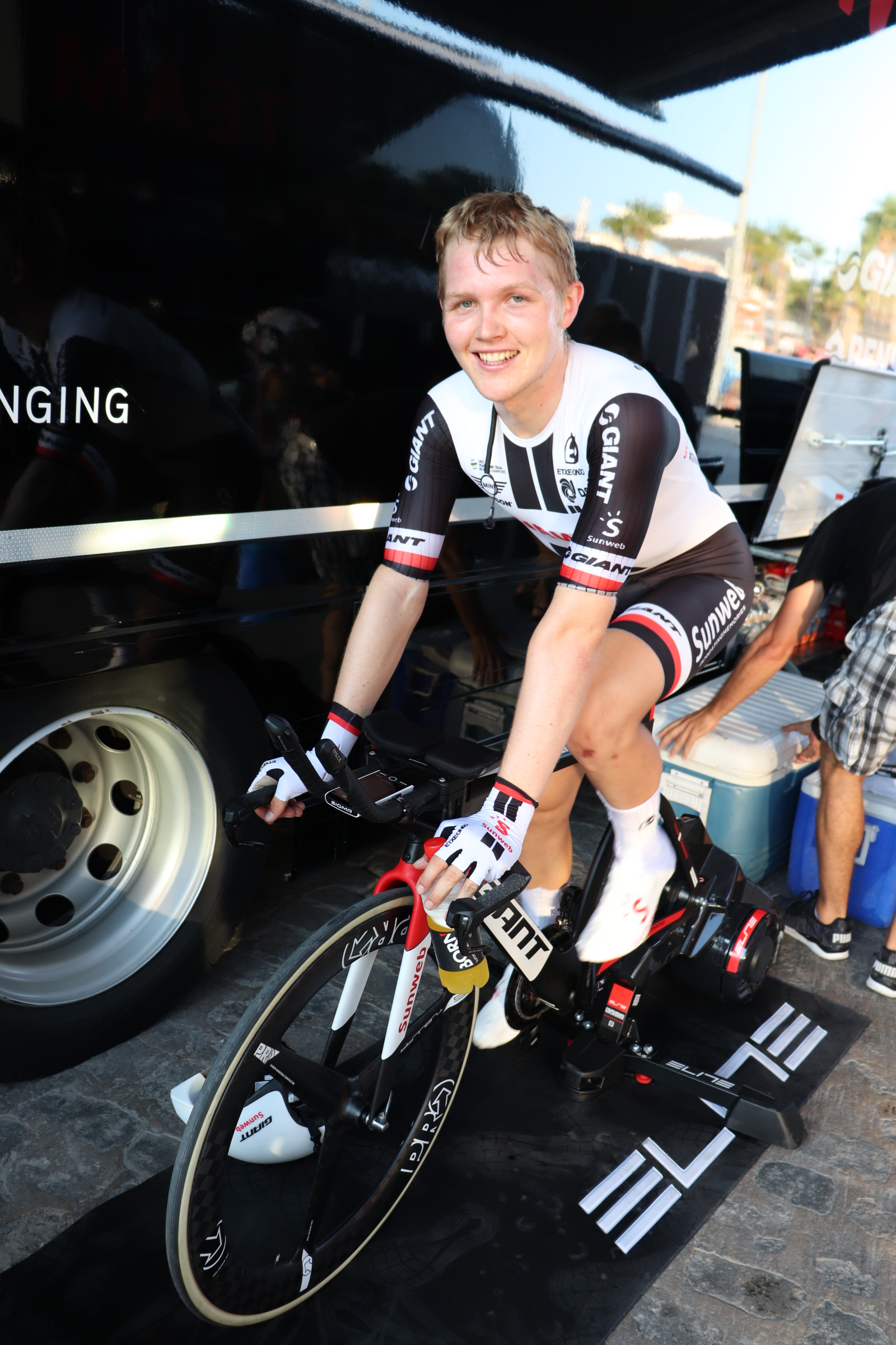 Storer during the 2018 Vuelta a Espana.